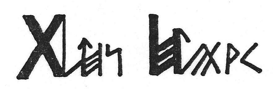 Zoltán Bárczy wrote his name with ligated Szekely-Hungarian rovas letters, 1971. From left-to-right.